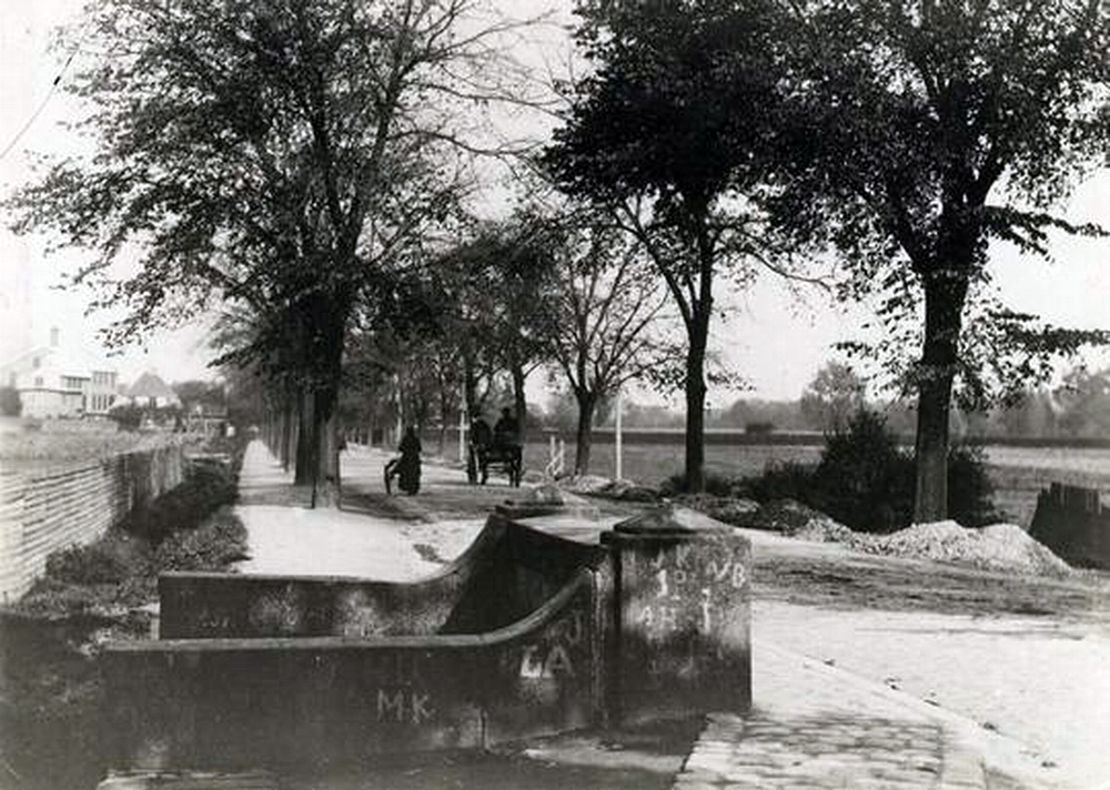 Jagtvej viewed from the bridge linking it to Frekoner Allé in Copenhagen, Denmark